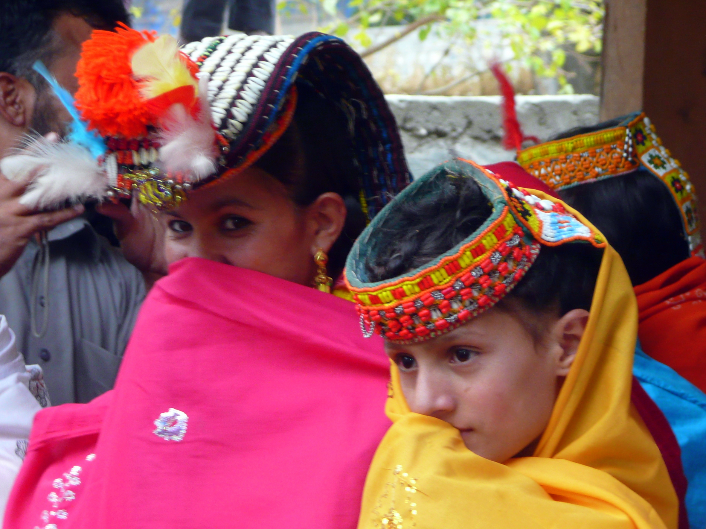 Kalasha girls